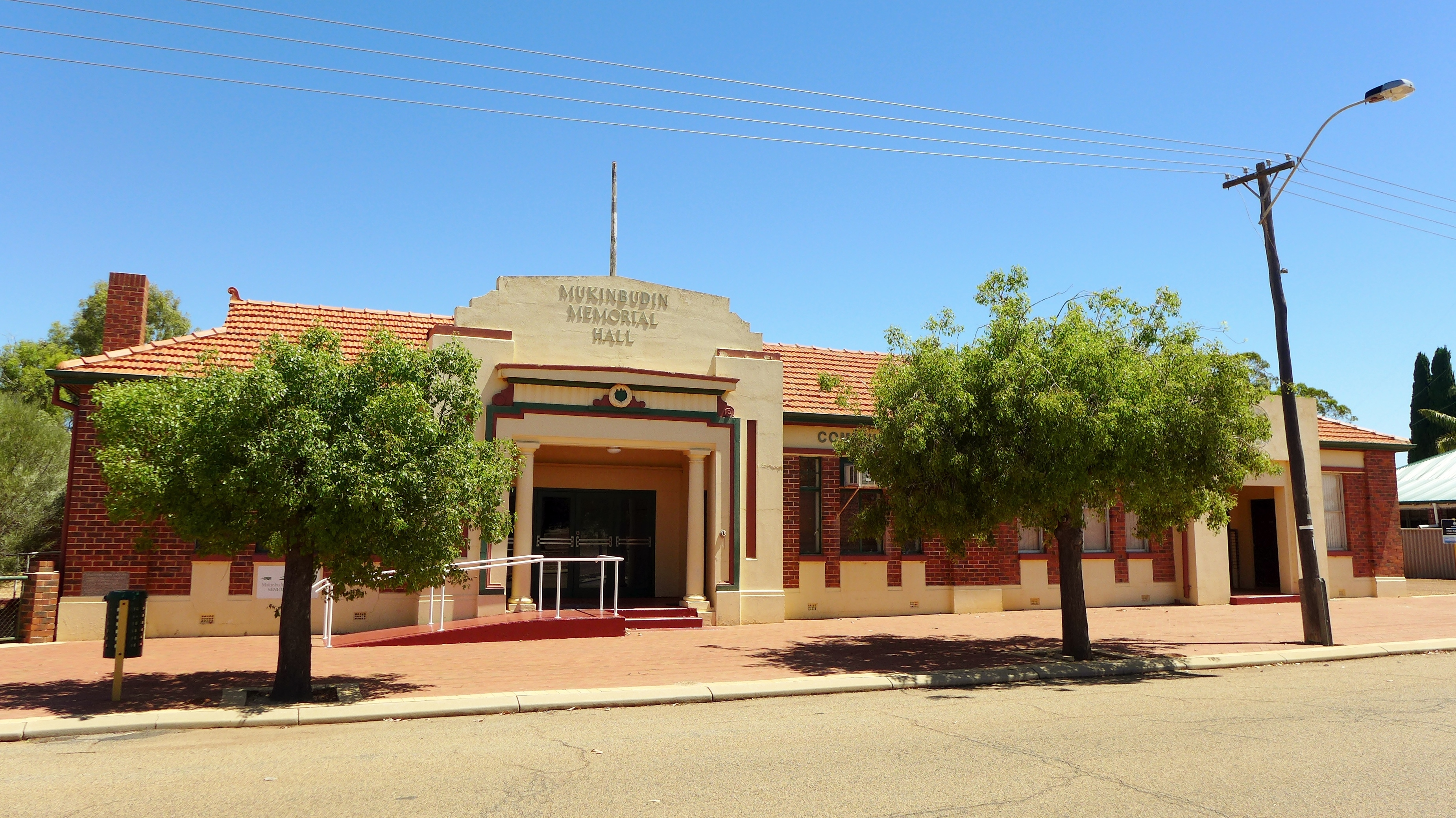 View of the Mukinbudin Memorial Hall, Shadbolt Street, Mukinbudin, Western Australia.